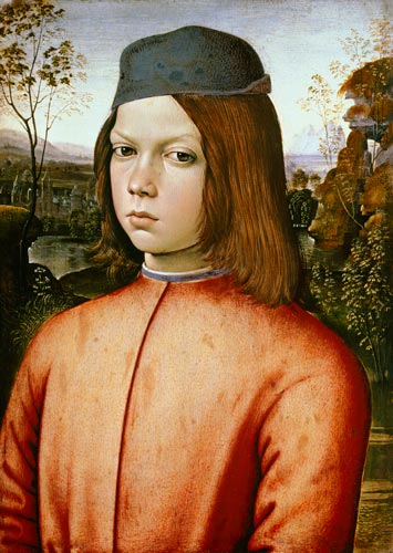 Portrait of a boy, possibly Cesare Borgia as child, by Bernardino di Betto Pinturicchio. 15th century. Art style: High Renaissance